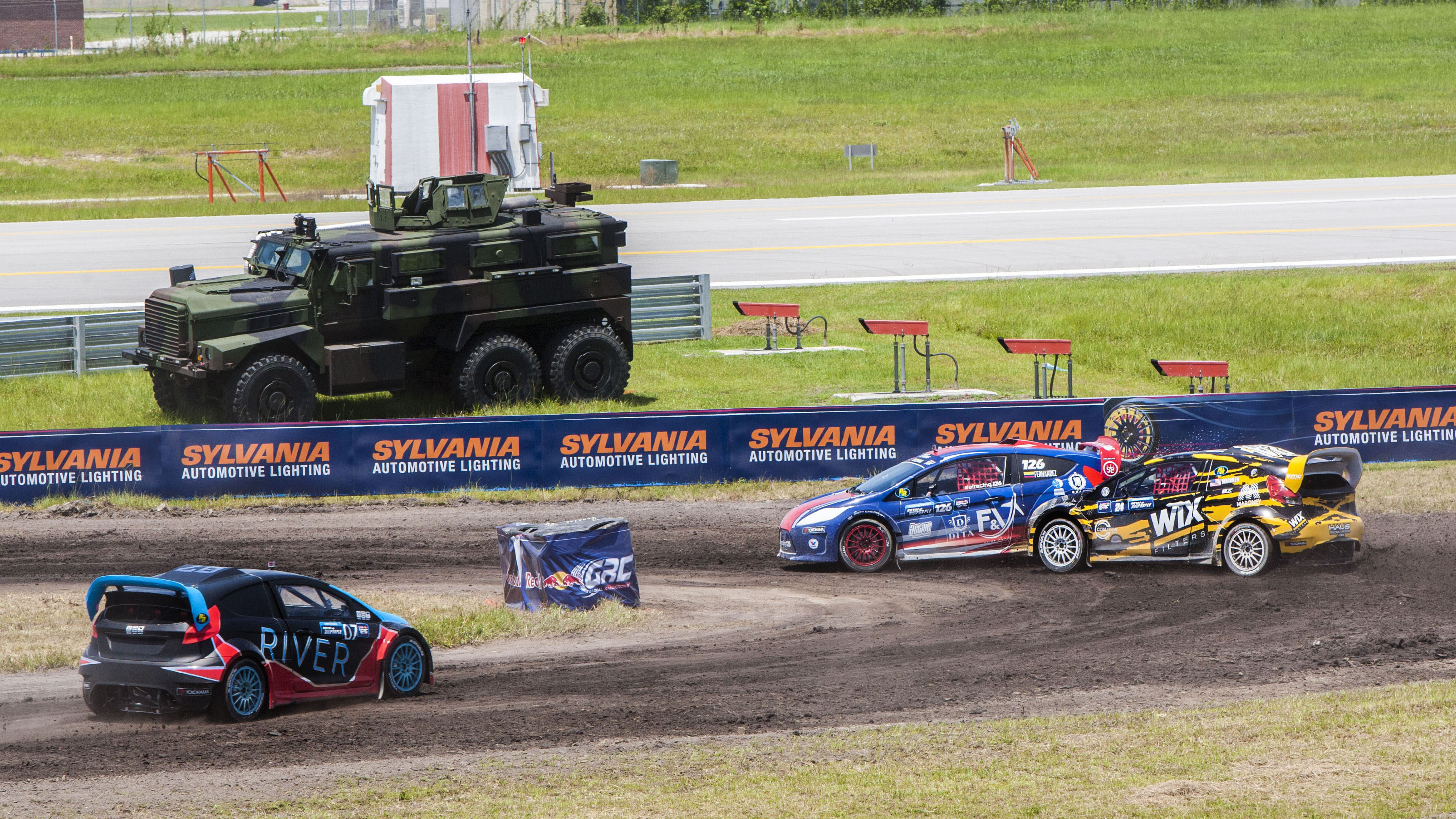 Competitiors race during a Red Bull Global Rallycross (GRC) event on Marine Corps Air Station New River, N.C., July 5, 2015. Competing on a .993-mile track, the longest in series history, the Red Bull GRC event was the first motorsports race to take place on an active military base. (U.S. Marine Corps photo by Sgt. Christopher Q. Stone, MCIEAST-MCB CAMLEJ Combat Camera/Released)